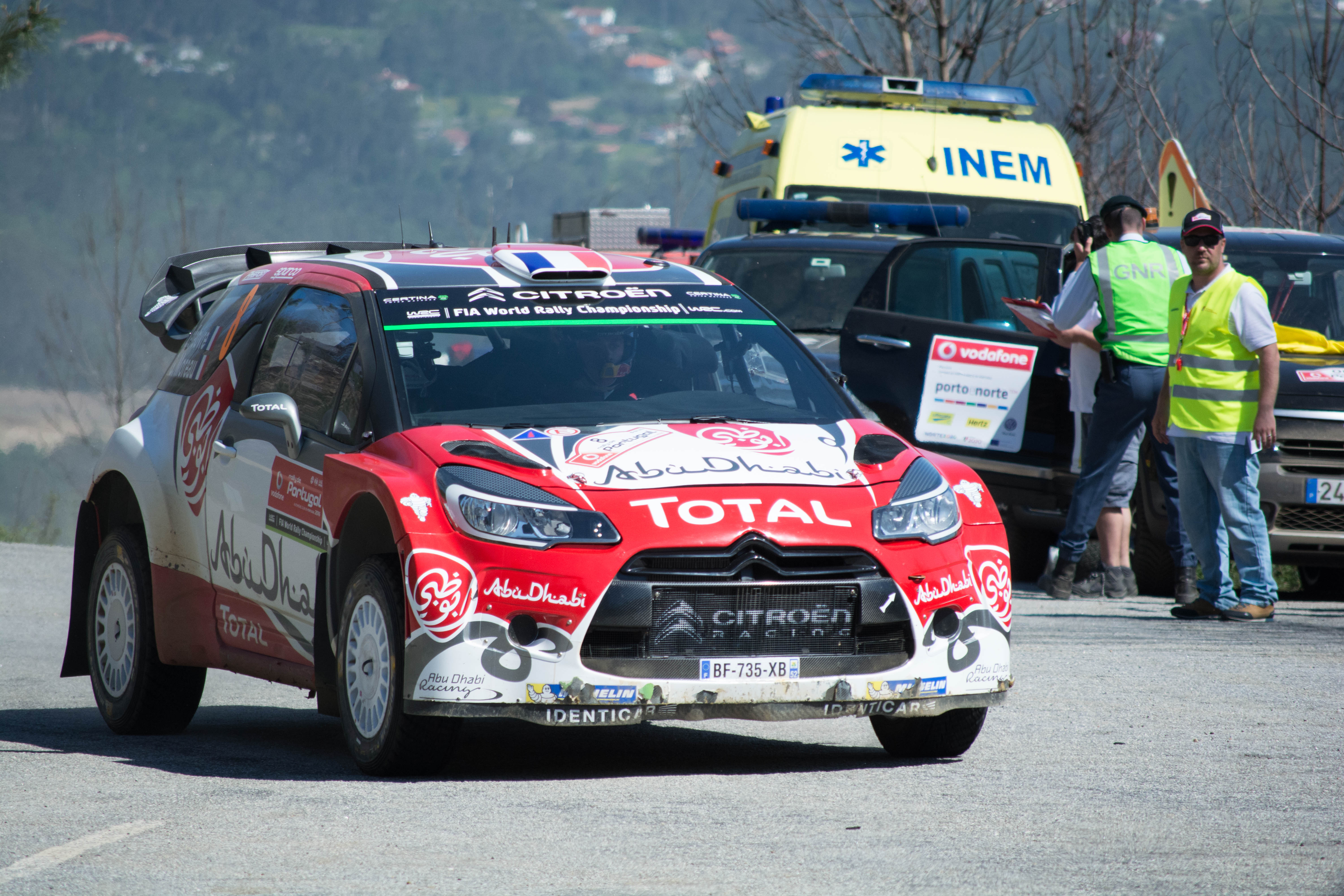 Rally of Portugal 2016. Section of "Ponte de Lima", on the second pass.